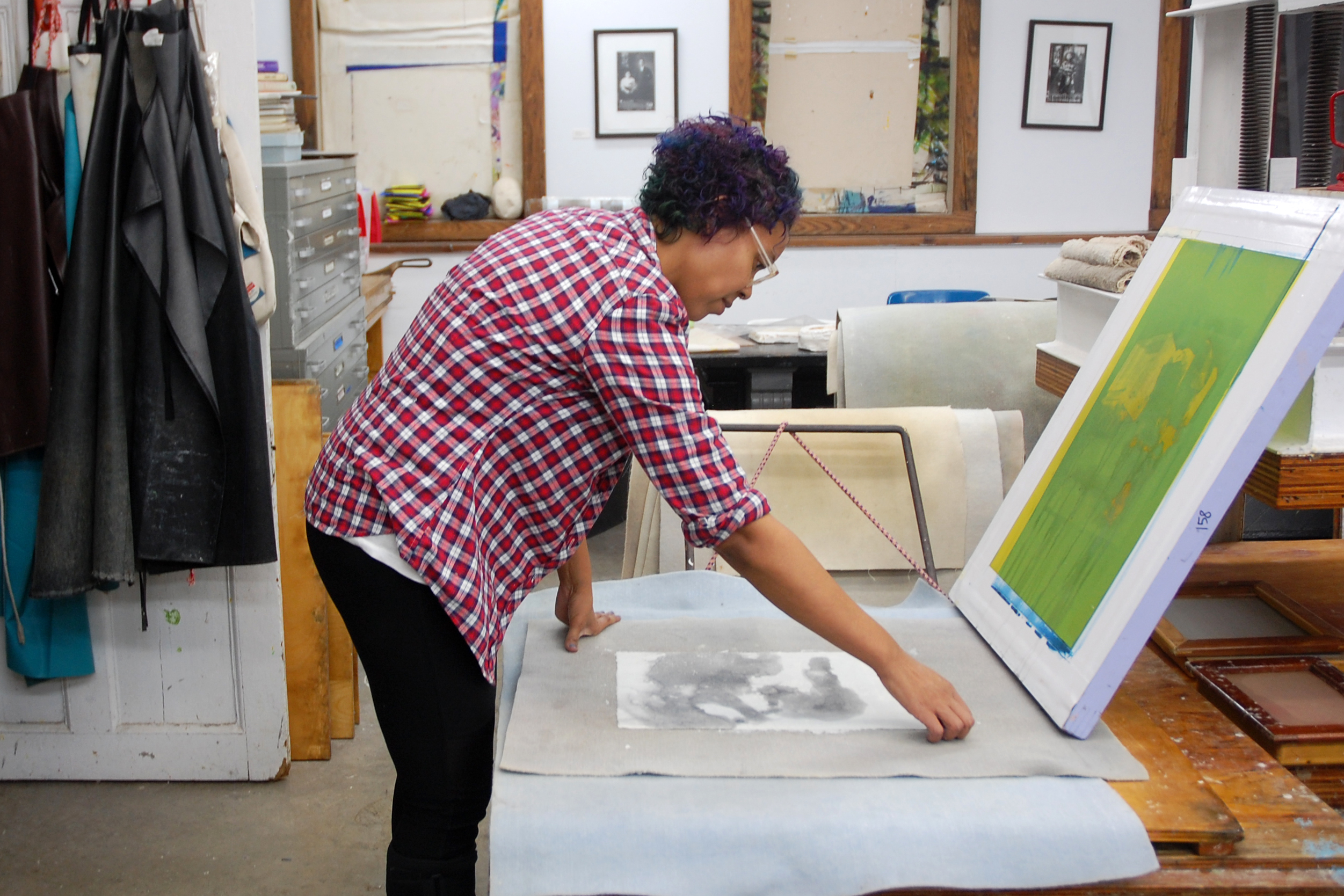 Andrea Chung working in the paper studio, exploring stories of Jamaican midwives